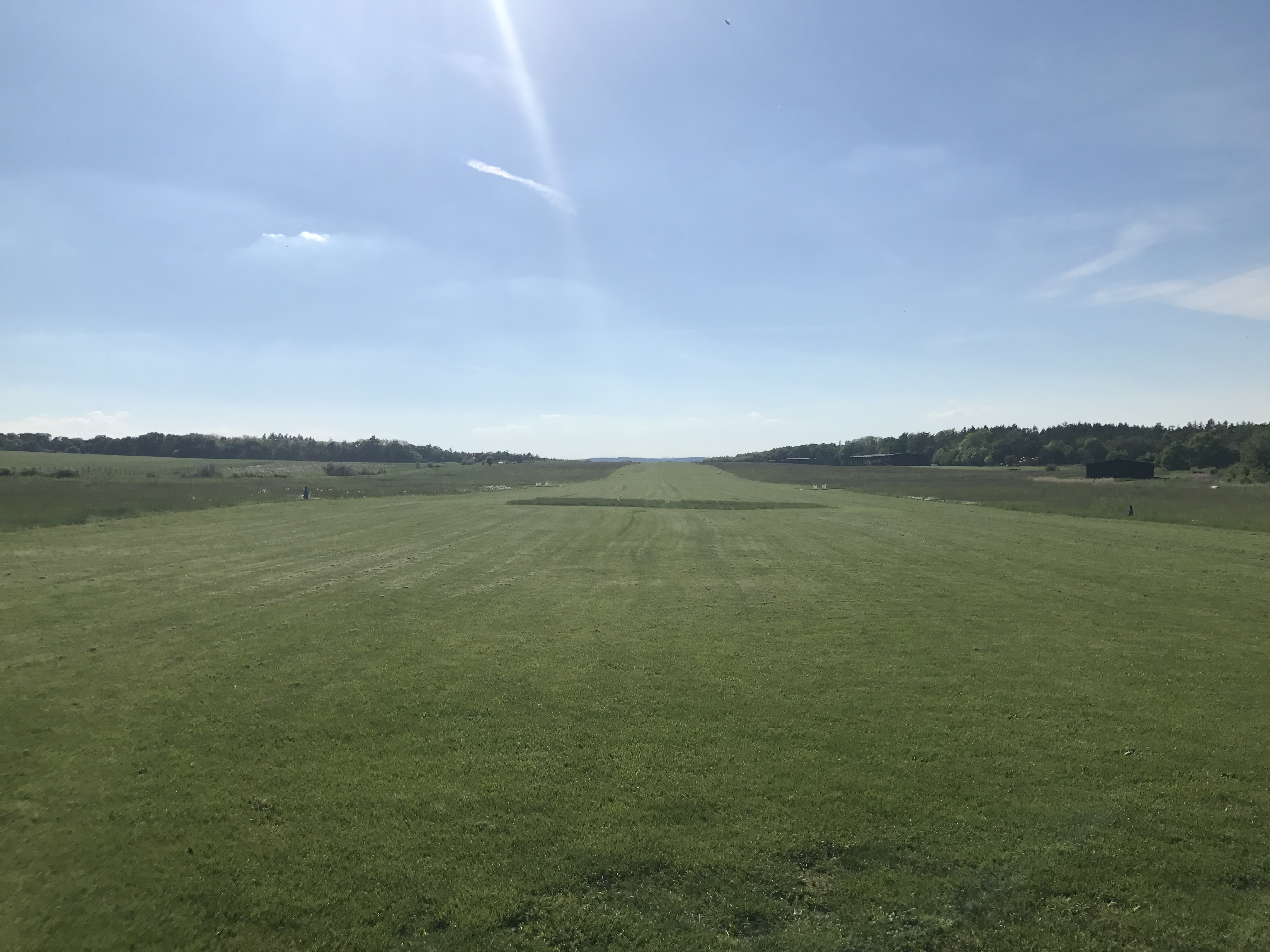 Prague Točná Airport runway 09/27 from east